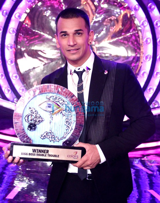 Prince Narula with Bigg Boss 9 Trophy at Grand finale of Bigg Boss 9.